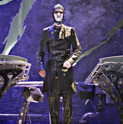 Flake Lorenz_ Lifad_Tour_Berlin_2009